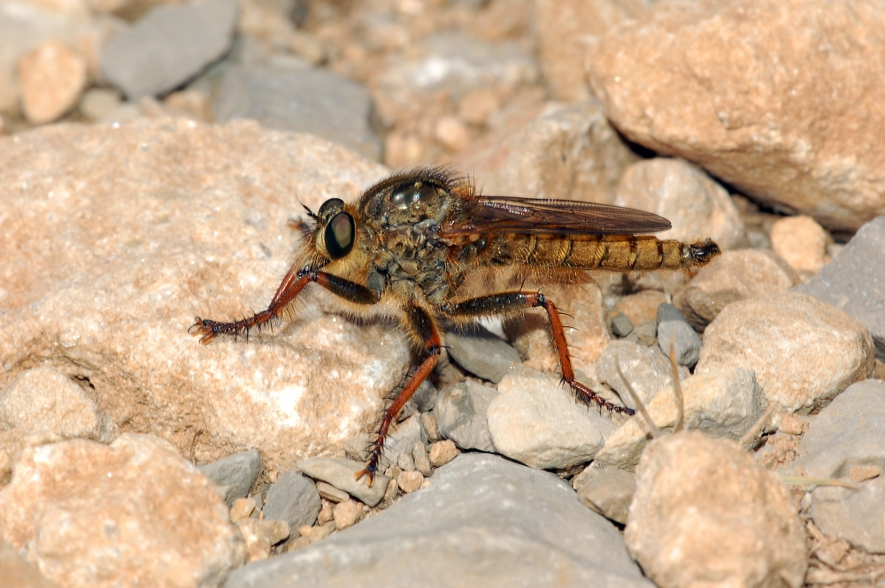 Machimus chrysitis, male, St. Guilhem le Desert, Languedoc-Roussillon, France